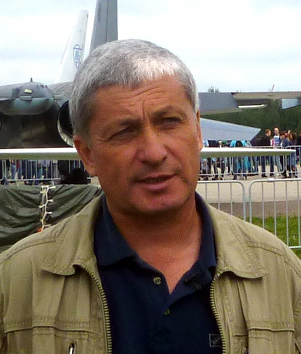 Georgij Kaminski